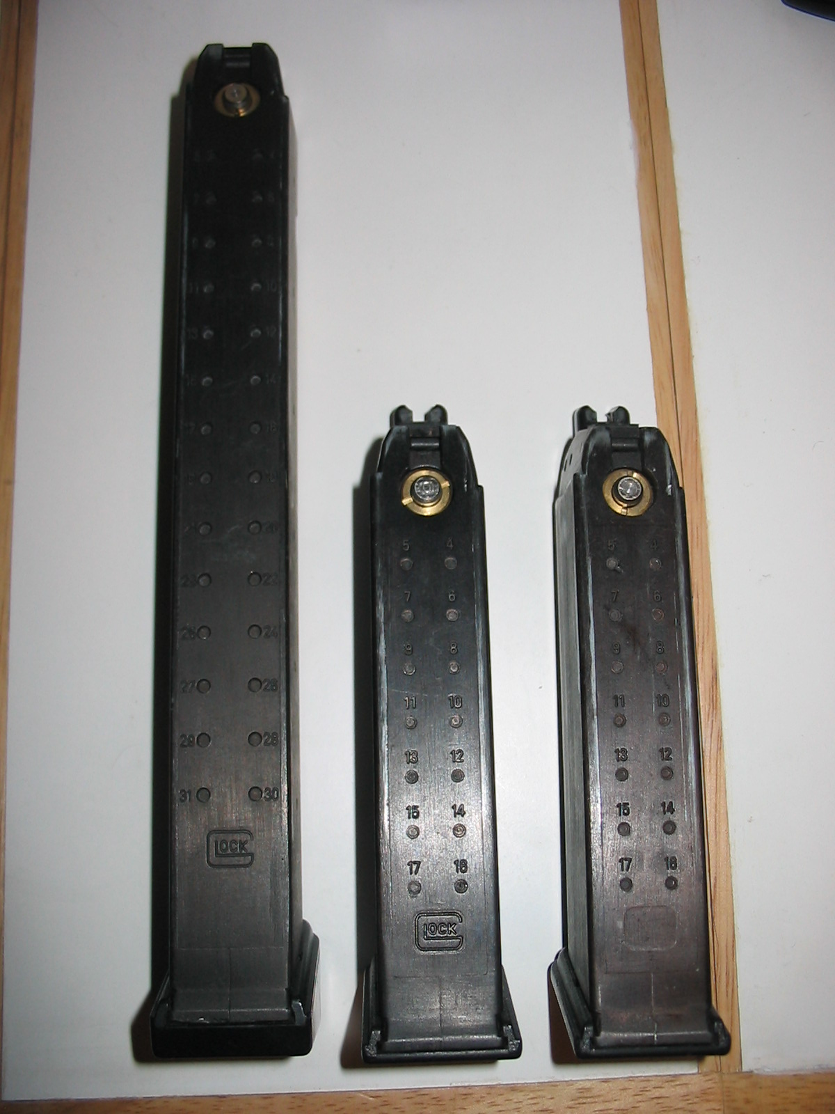 Magazines for KSC's Glock series airsoft guns.